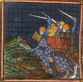 Lothaire of France driving emperor Otho's II army into the Aisne. (British Library, Royal 16 G VI f. 257v)